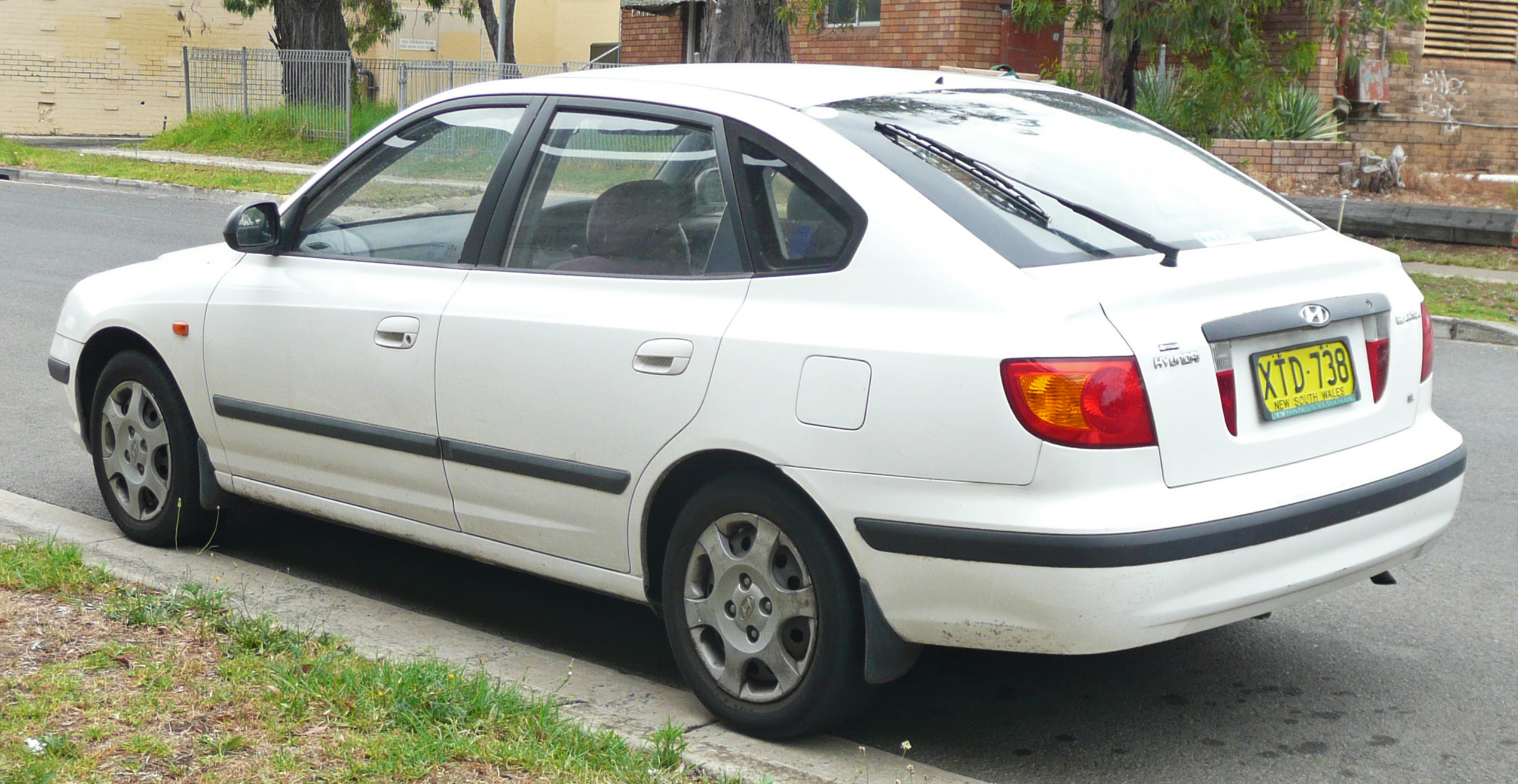 2000–2003 Hyundai Elantra (XD) GL hatchback. Photographed in Sutherland, New South Wales, Australia.